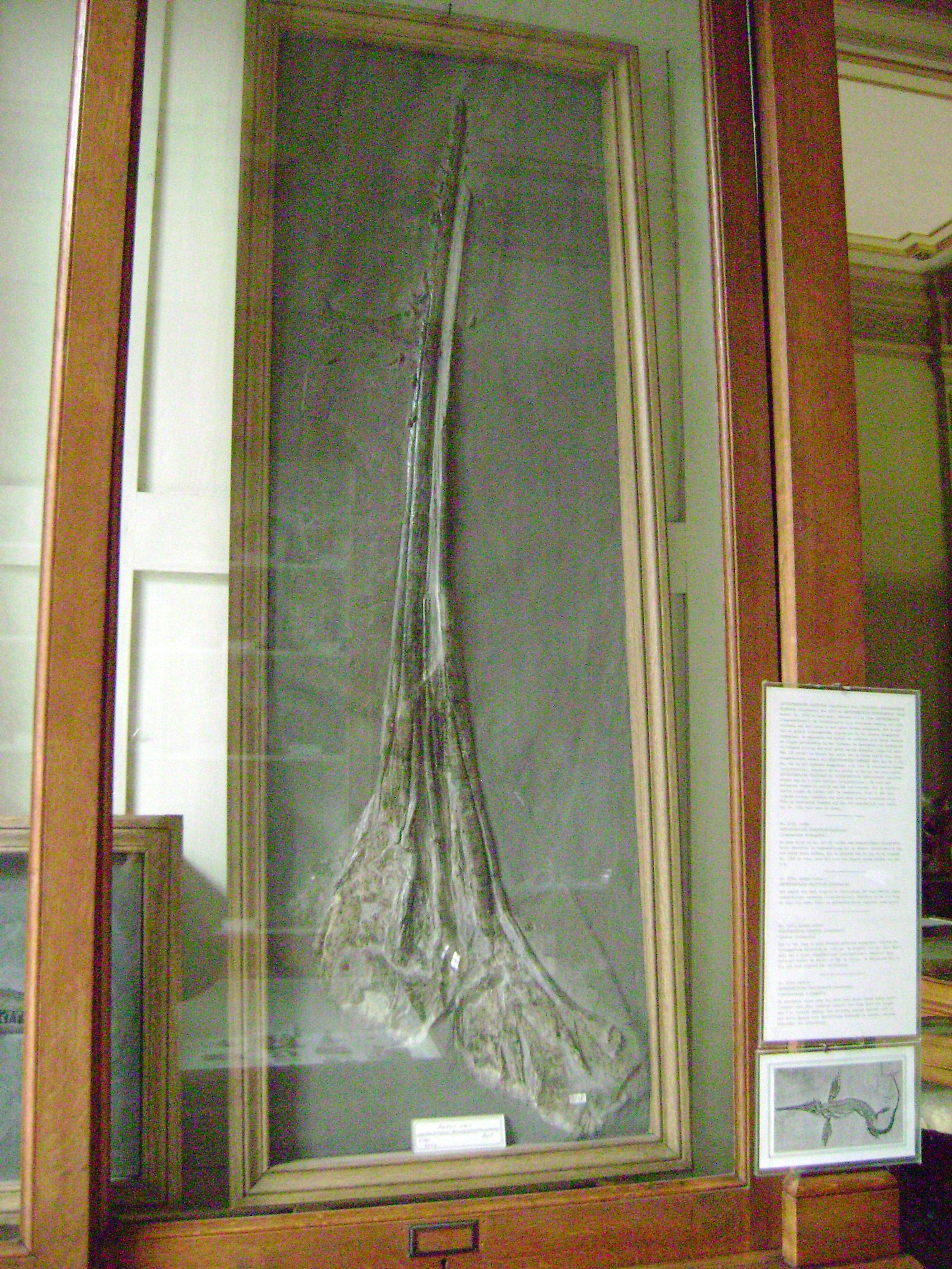 The head of Leptonectes, specimen TM 2728, in the Teylers Museum in Haarlem, The Netherlands